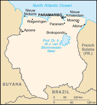 Map of Suriname, showing major towns.